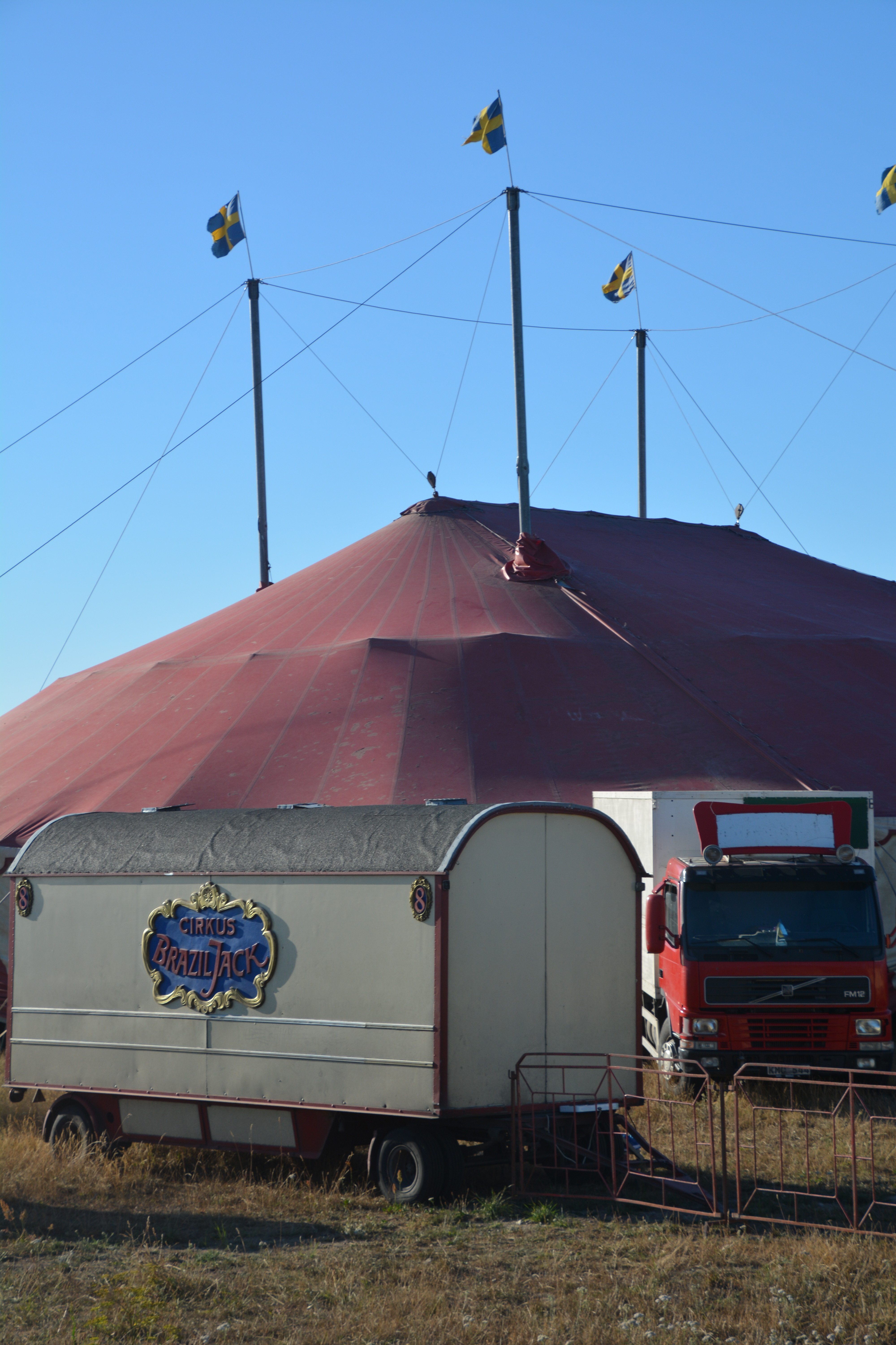 Cirkus Brazil Jack i Ystad, augusti 2018